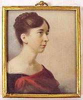 Miniature portrait of Mary Ann Walker Dickinson by the American painter Anson Dickinson